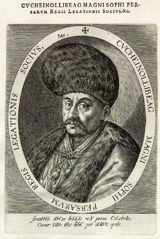 Husain Ali Beg